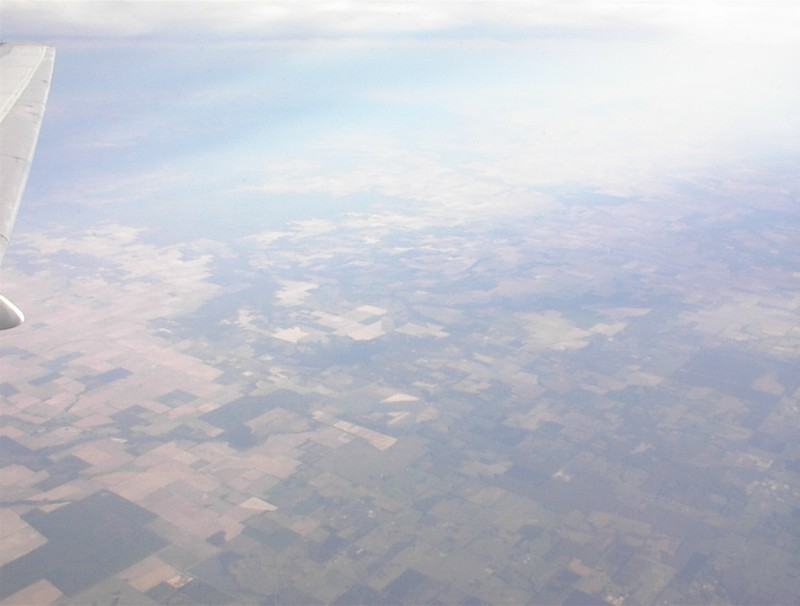 Arkansas from the air, April 11, 2006. Self-made.